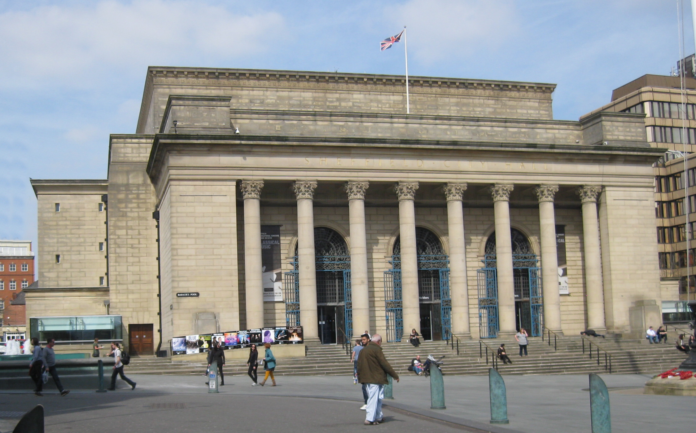 Sheffield City Hall, Barkers Pool, Sheffield city centre.